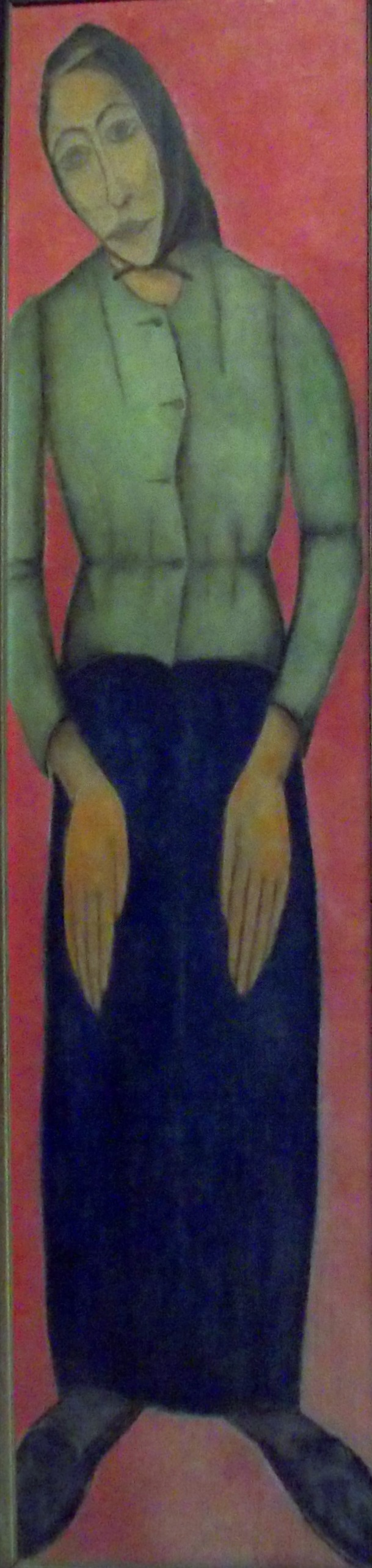 Leventis Gallery, Nicosia, Cyprus. George Pol. Georghiou - The Priest’s Wife. Oil on wood. In this depiction he uses elements of both Byzantine iconography and modernist movements. He pays particular attention to the hands, which are disproportionate to the rest of the body; he makes them larger to symbolize creation. The stance of the priest’s wife reveals the deeply rooted values of the woman in traditional Cypriot society: perseverance, humility, piety and modesty.